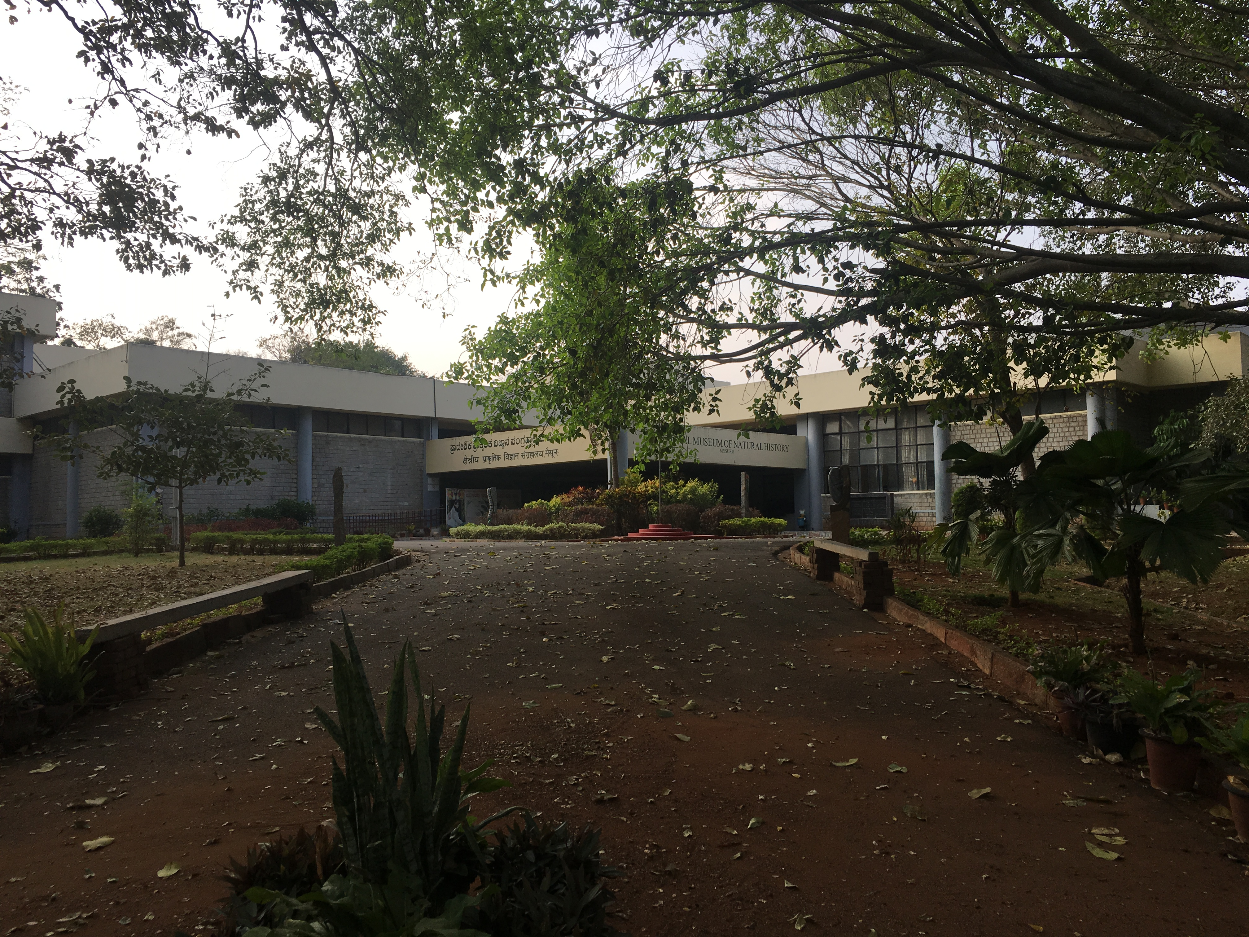 Regional Museum of Natural History Mysore